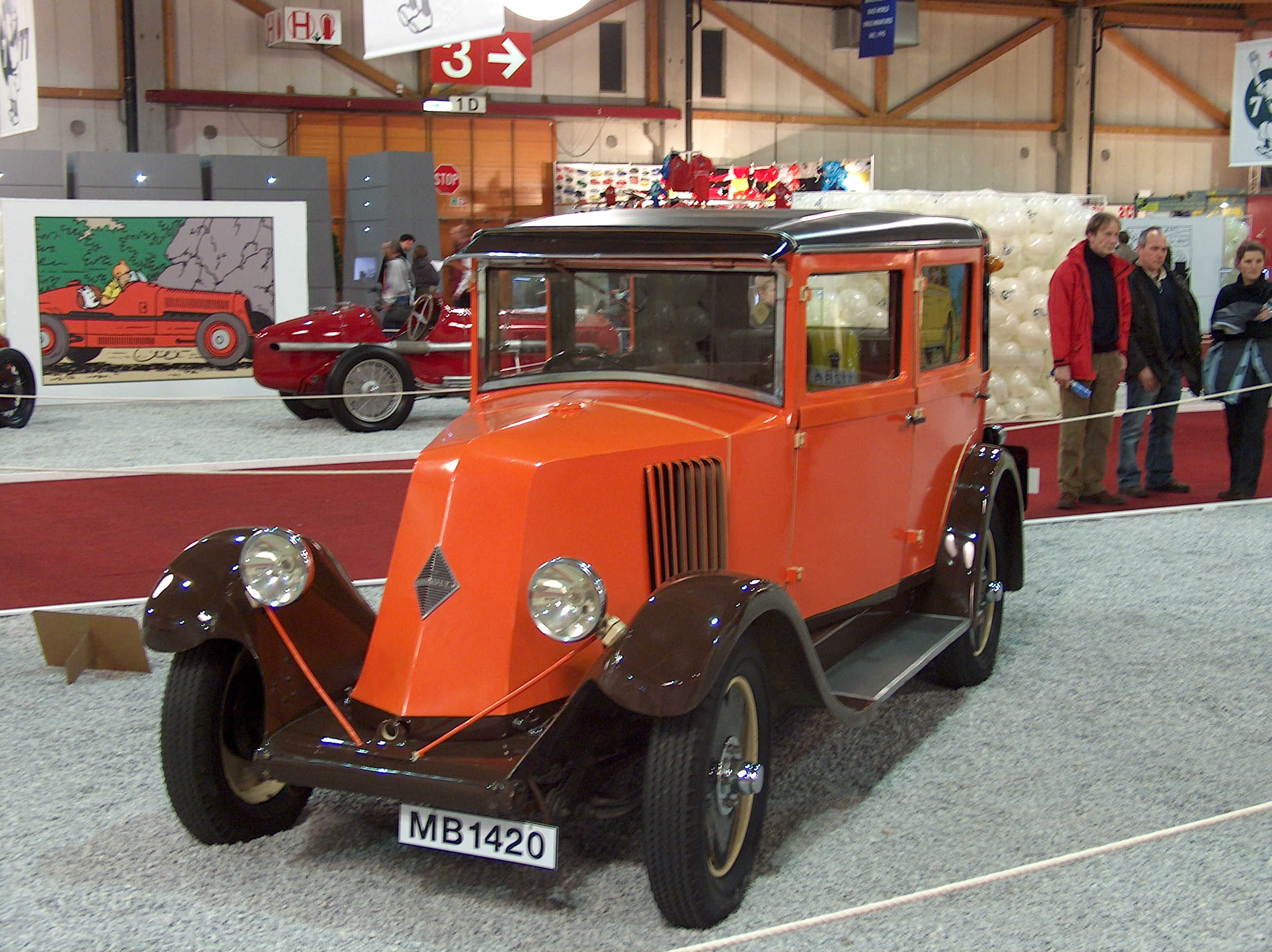 Description: *Renault NN Year 1926 Photo taken at the European Motor Show Brussels 2006, Belgium, 2006